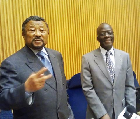 AU Commission Chairman Jean Ping (l) and the acting Peace and Security Council Chairman, Nigerian Ambassador B. Paul Lolo brief reporters at African Union HQ, March 23, 2012